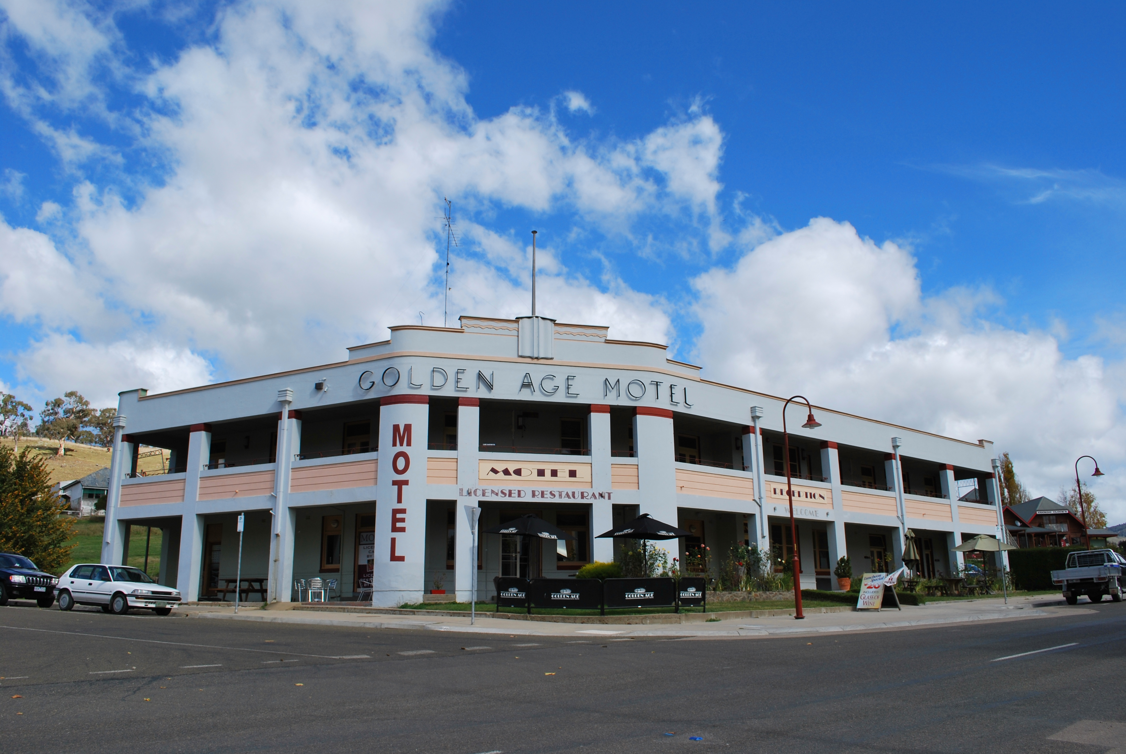 Golden Age Hotel, now a motel, at Omeo, Victoria. This is the fifth hotel of that name and was built from the bricks of the fourth hotel that burned down in the Black Friday bushfires of 1939.